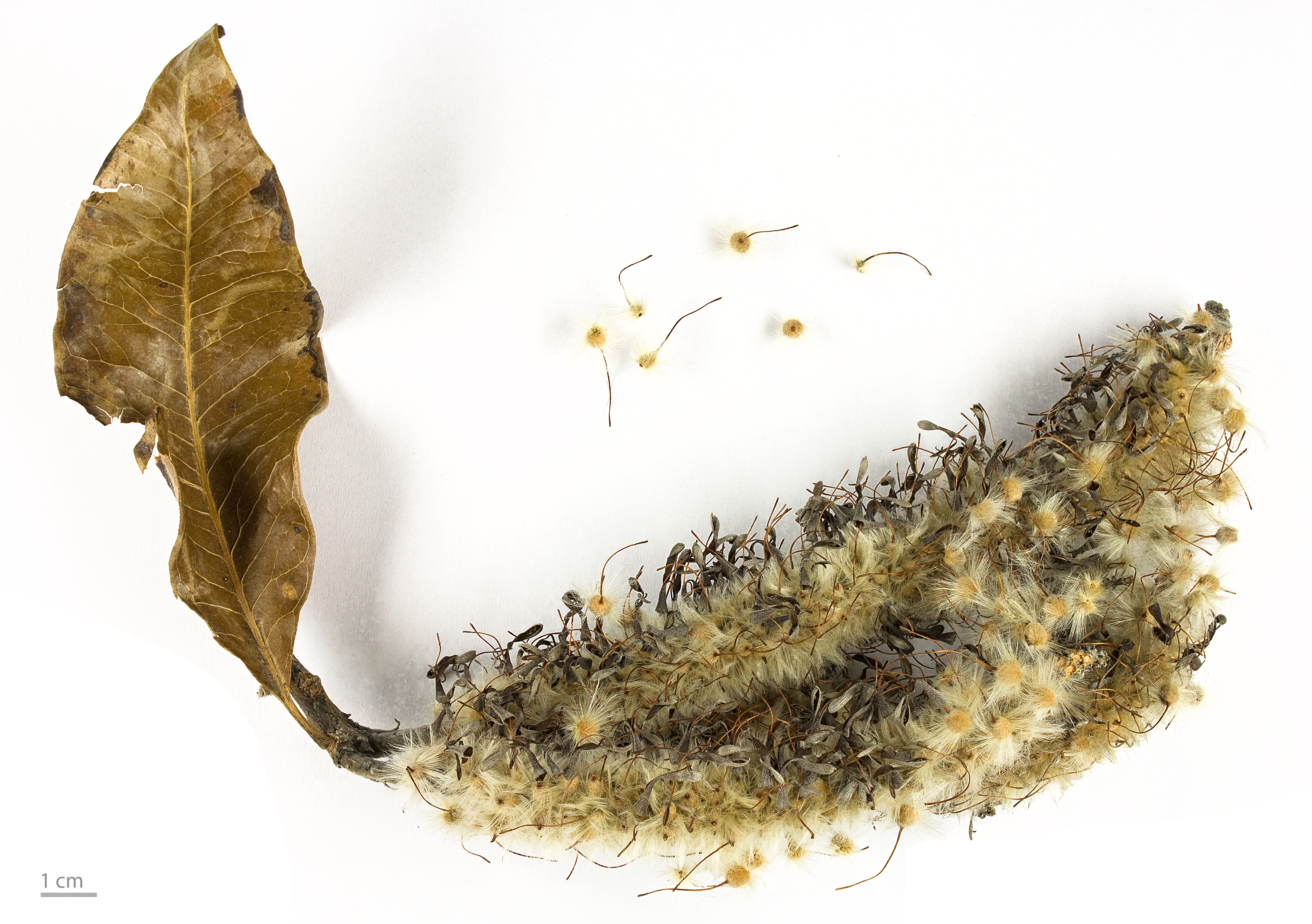 Faurea rochetiana , fruits and seeds